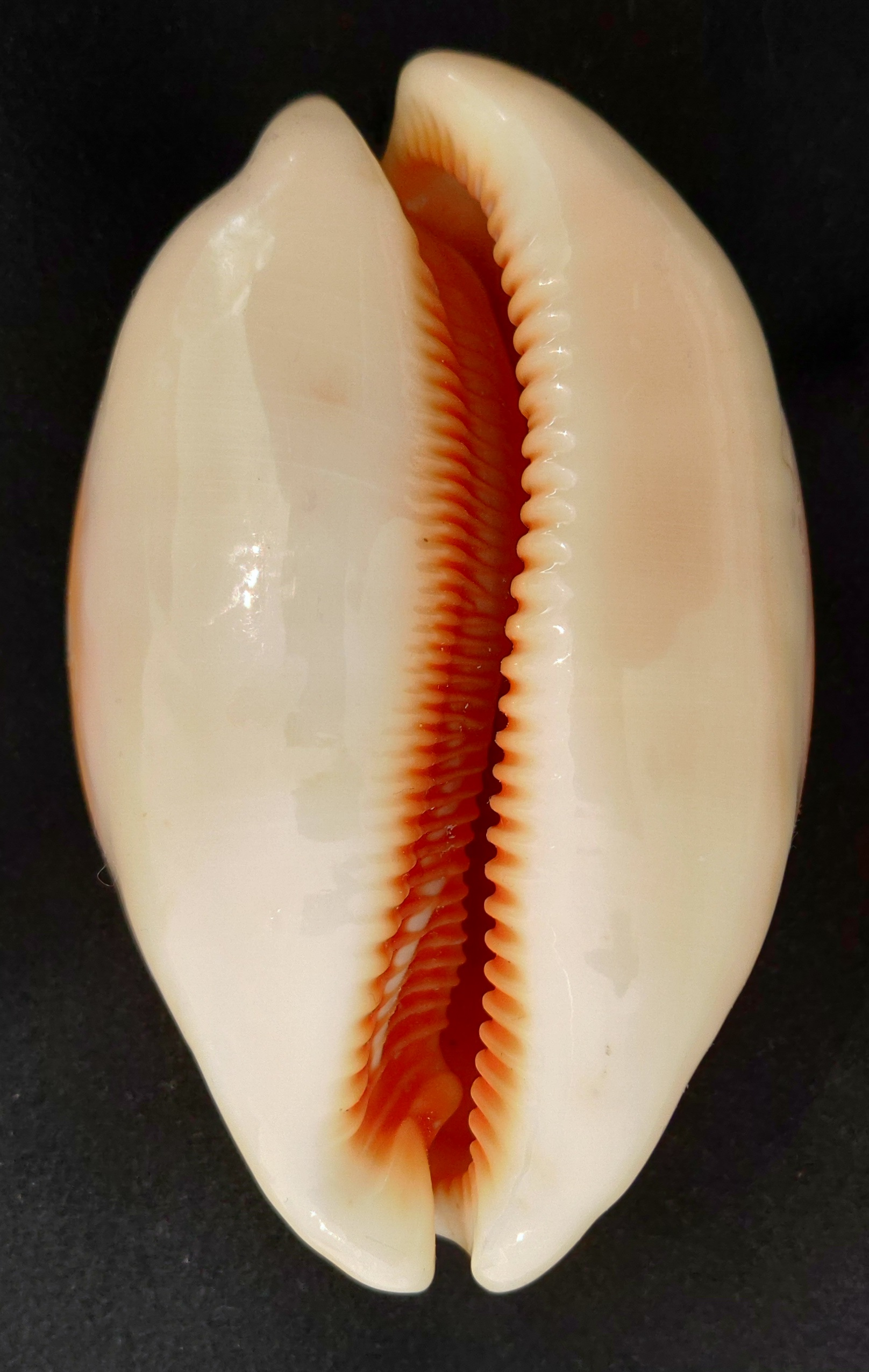 Lyncina Aurantium Front